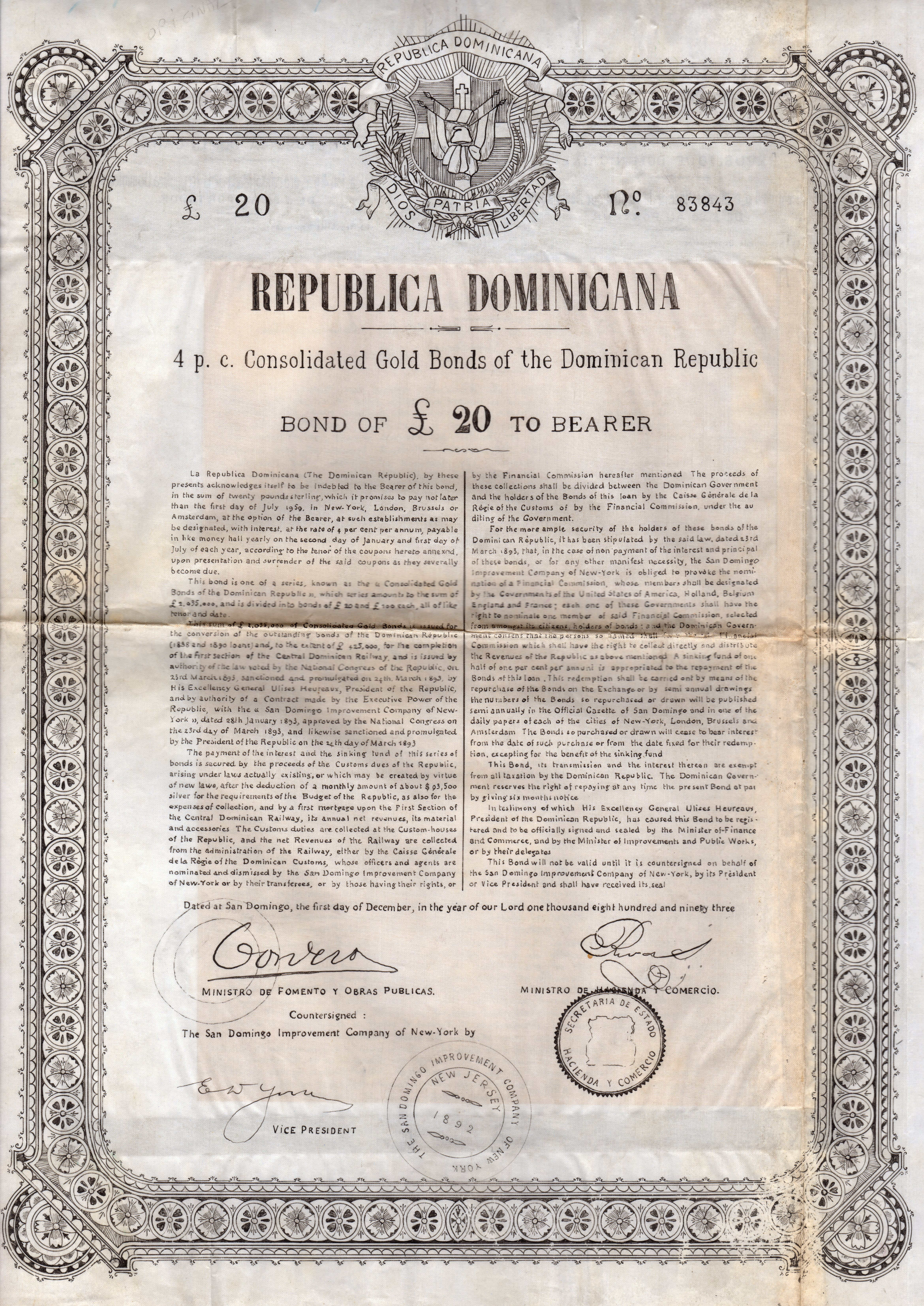 Gold bond of the Dominican Republic, issued 1. December 1893